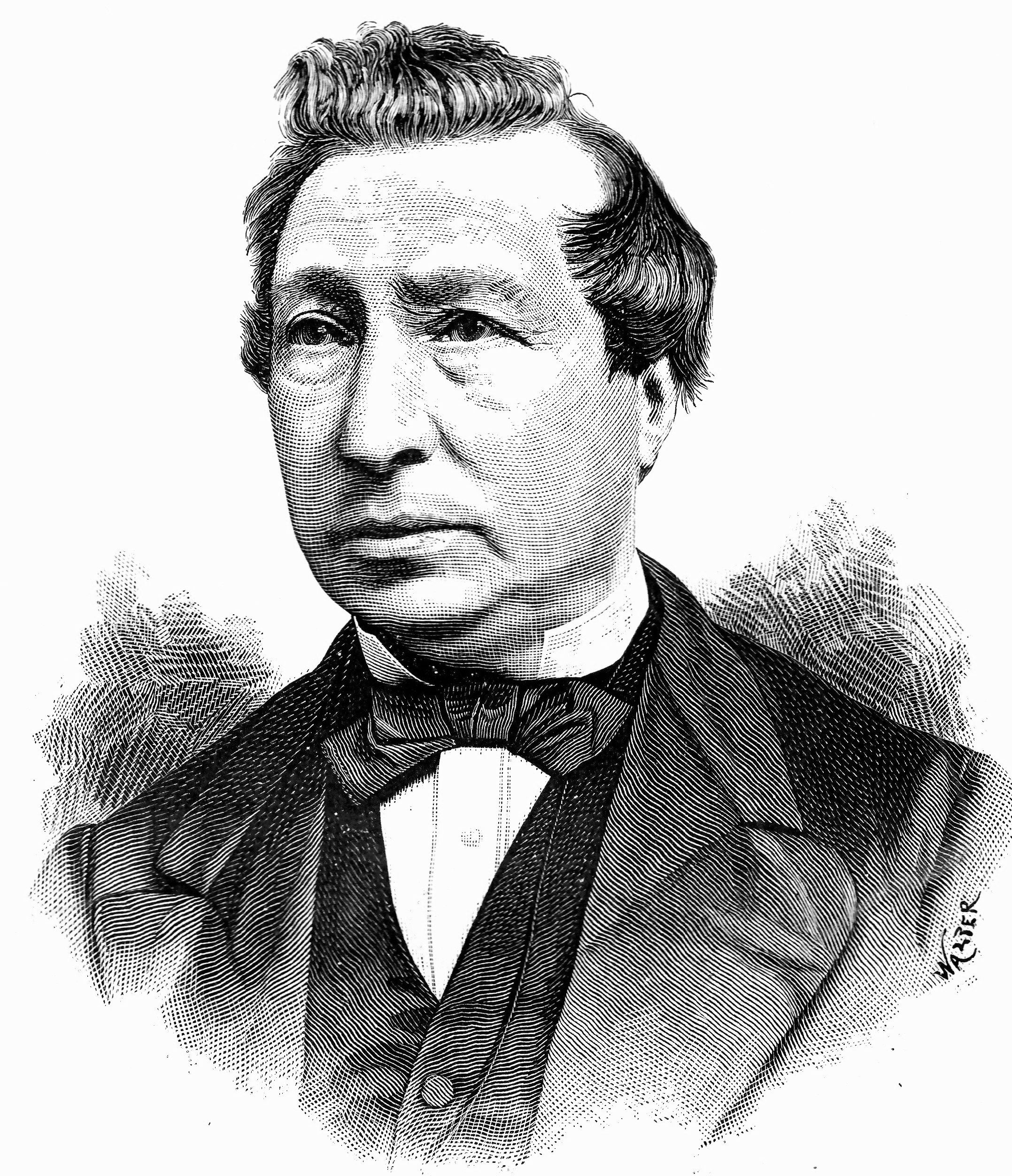 A.C. Kruseman